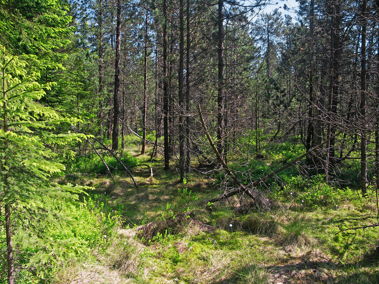 Podkovák Nature Reserve in the CHKO Český les in the Czech Republic